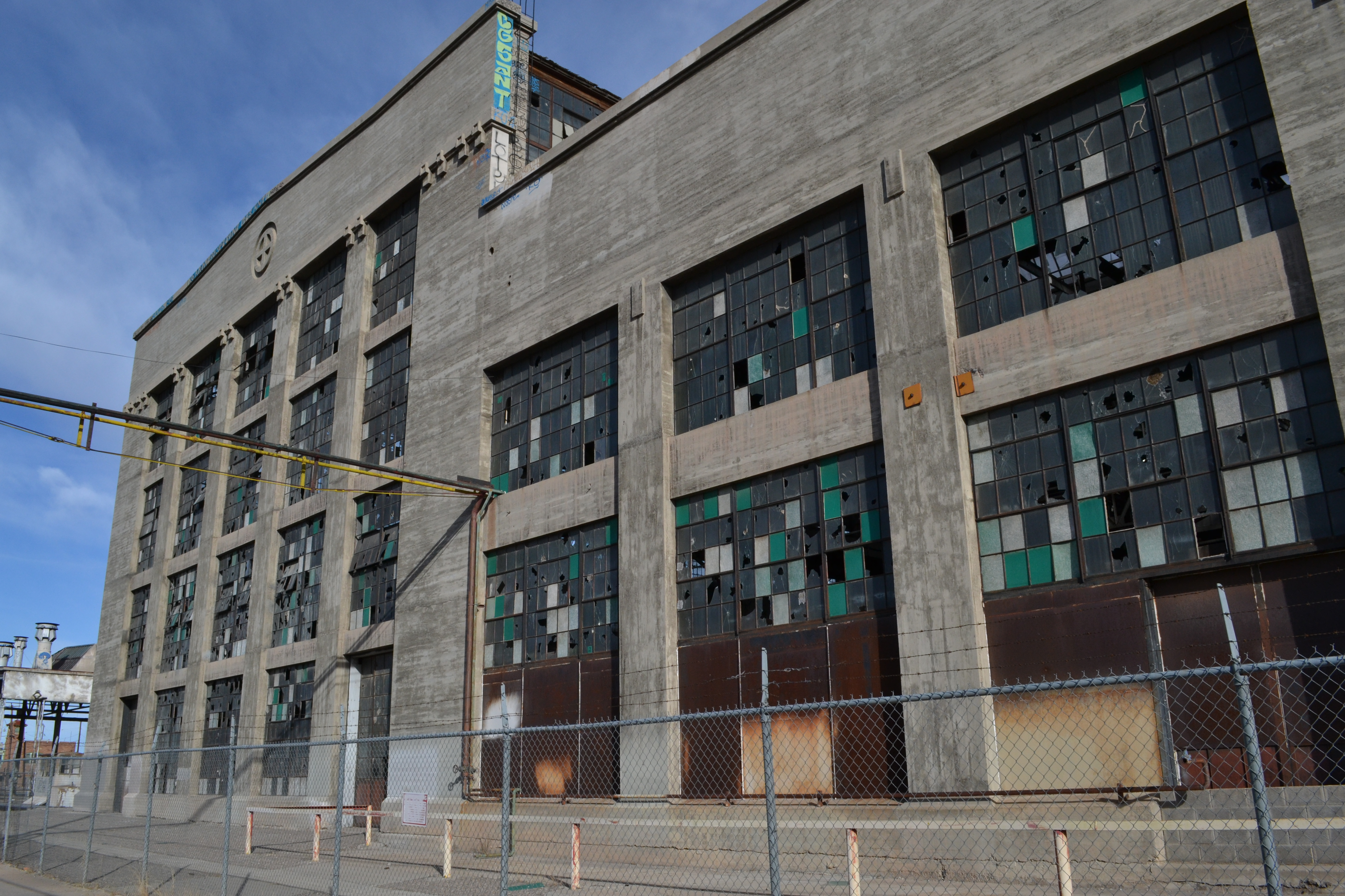 The Machine Shop at the AT&SF Railway Shops in Albuquerque, New Mexico, built in 1921